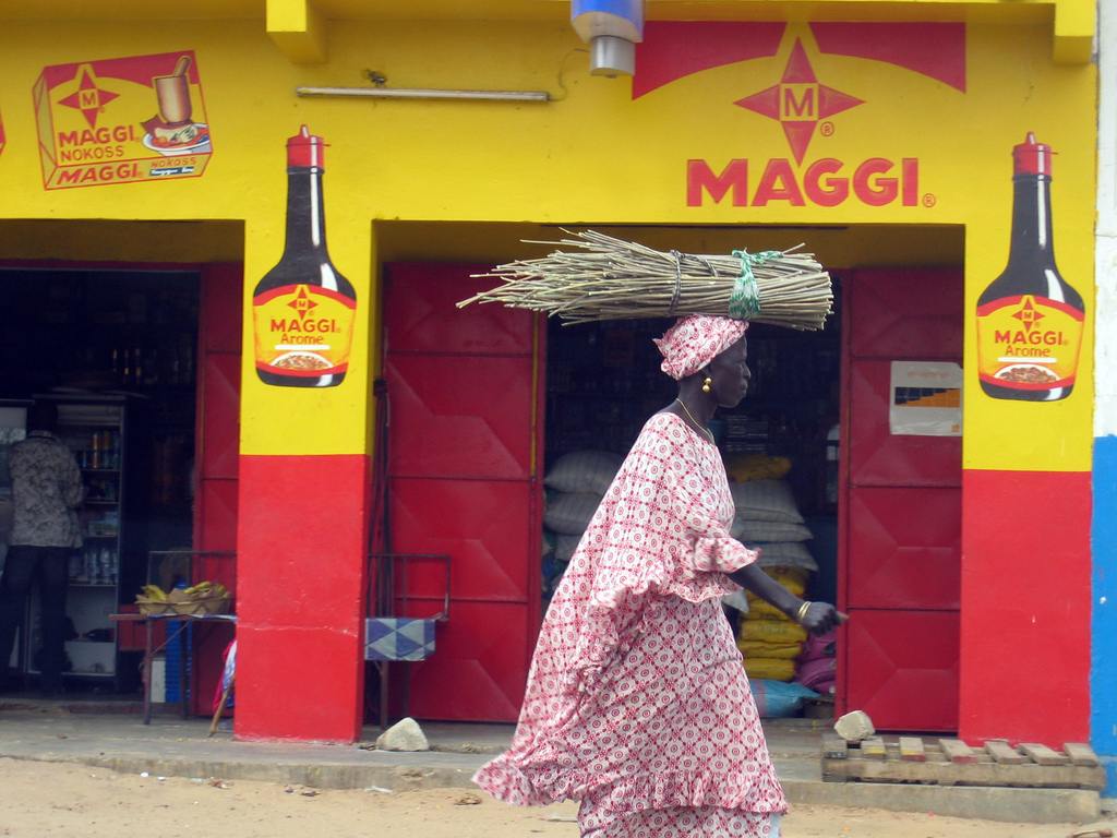 Senagalese woman carrying a bundle, in front of MAGGI advertising (western Senegal)